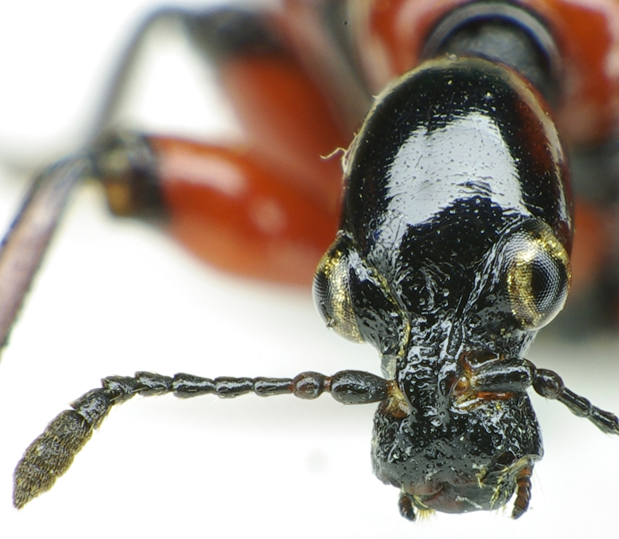 Apoderus coryli from Hungary, head